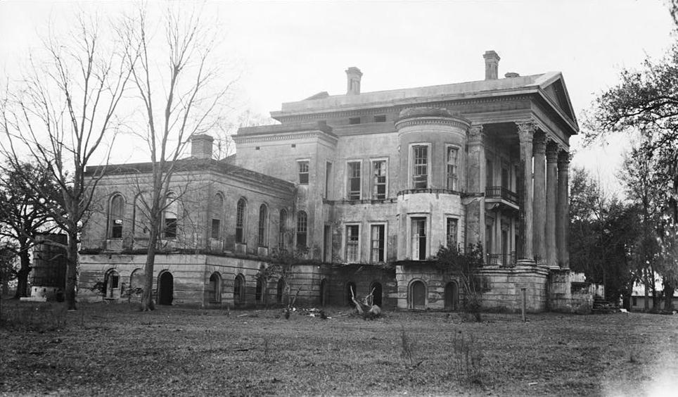 Belle Grove, White Castle vicinity, Iberville Parish, LA. GENERAL VIEW FROM NORTH.